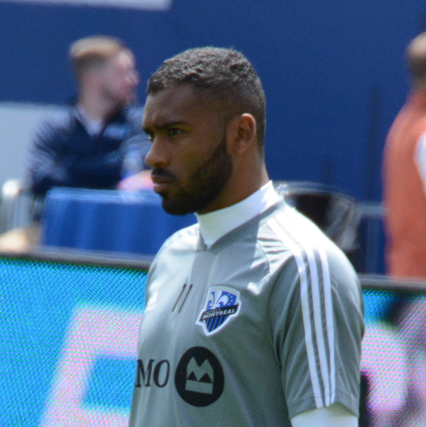 Taken during practice before a Major League Soccer regular season match between FC Cincinnati and Montreal Impact at Nippert Stadium in Cincinnati, USA on May 11, 2019